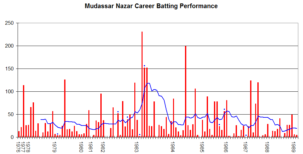 This graph details the Test Match performance of Mudassar Nazar. It was created by Raven4x4x. The red bars indicate the player's test match innings, while the blue line shows the average of the ten most recent innings at that point. Note that this average cannot be calculated for the first nine innings. The blue dots indicate innings in which Mudassar finished not-out. This graph was generated with Microsoft Excel 2002, using data from Cricinfo and .au.